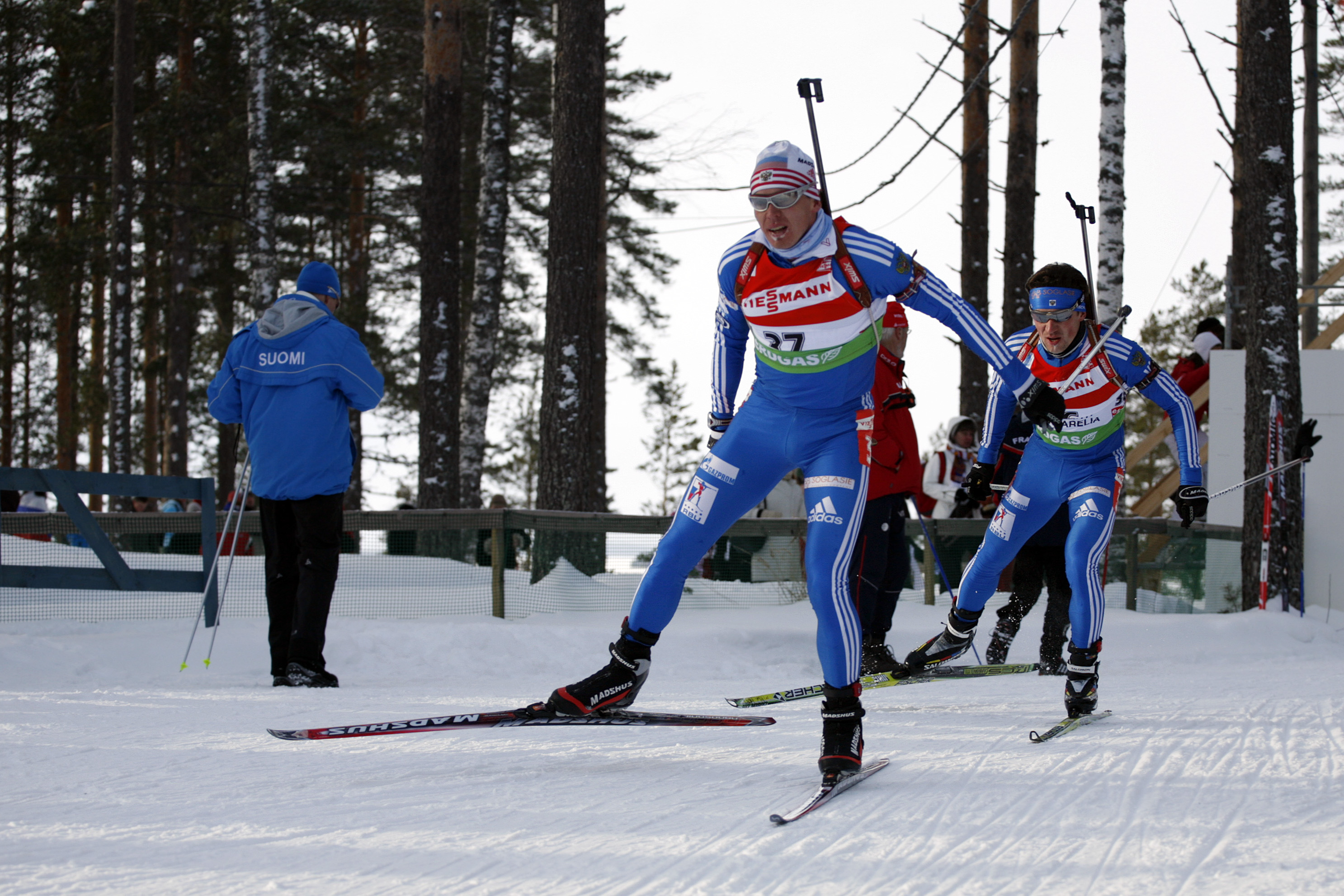 Men 10 km sprint, Saturday 13 march 2010, Kontiolahti. Ivan Tcherezov and Maxim Tchoudov on first lap. 1 and 13 places after finish.